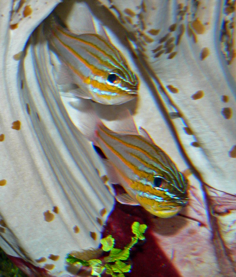 Photo of Apogon cyanosoma at Birch Aquarium